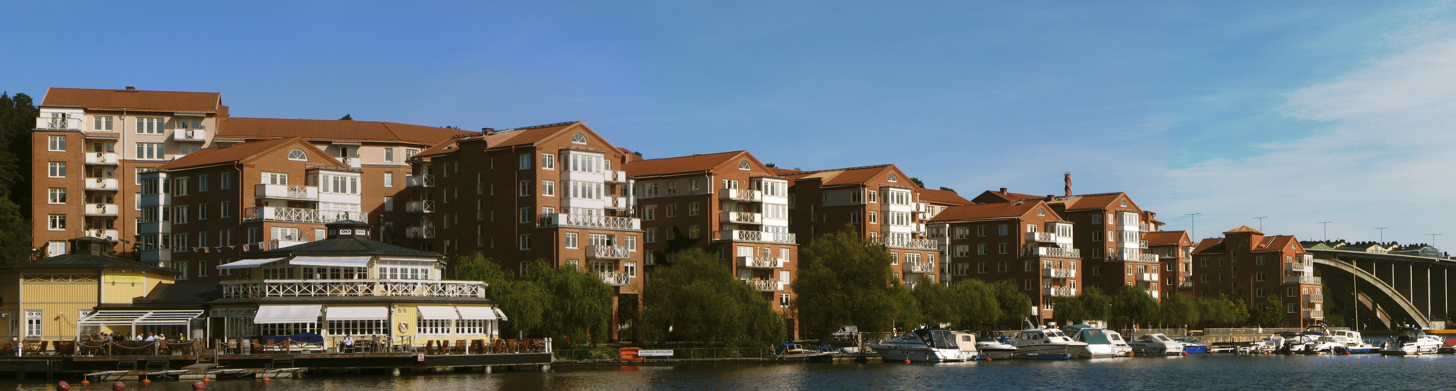 Tranebergs strand